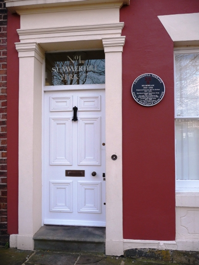 Mo Mowlem's plaque, 1 Summerhill Terrace, Newcastle Mo Mowlem once lived in this house, tucked away off Westgate Road.